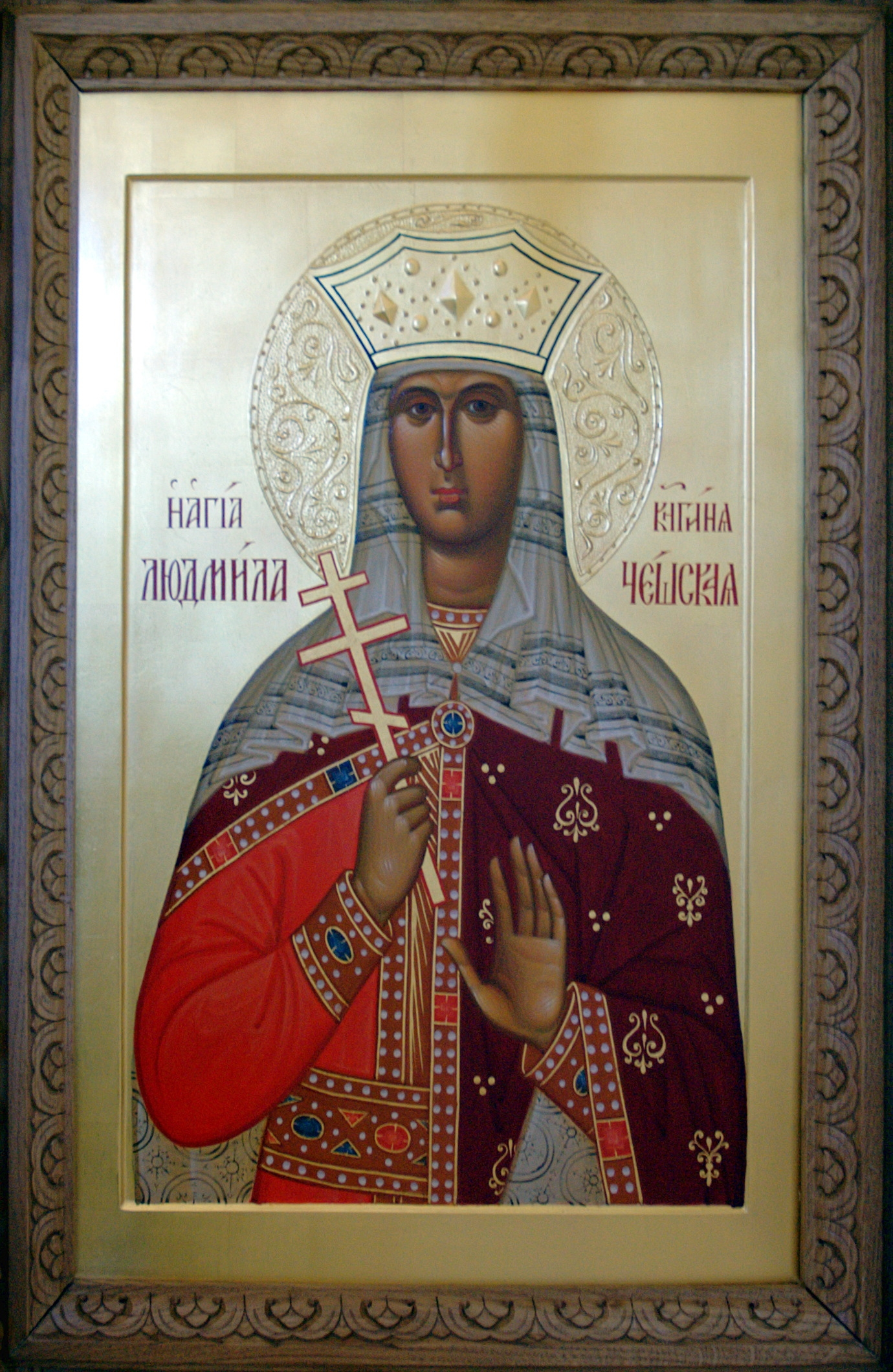 Icon of Saint Ludmila of Bohemia (Valaam Monastery, Saint Vladimir skete)